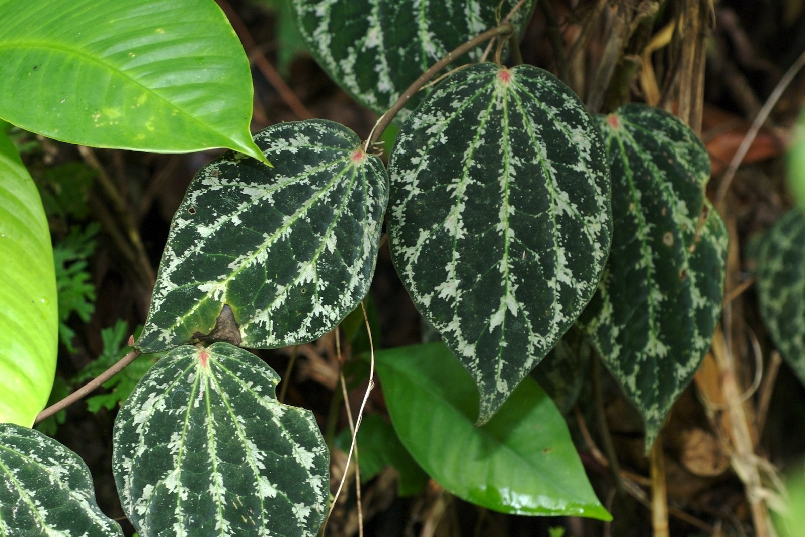 Photographed outside Kuching, Borneo